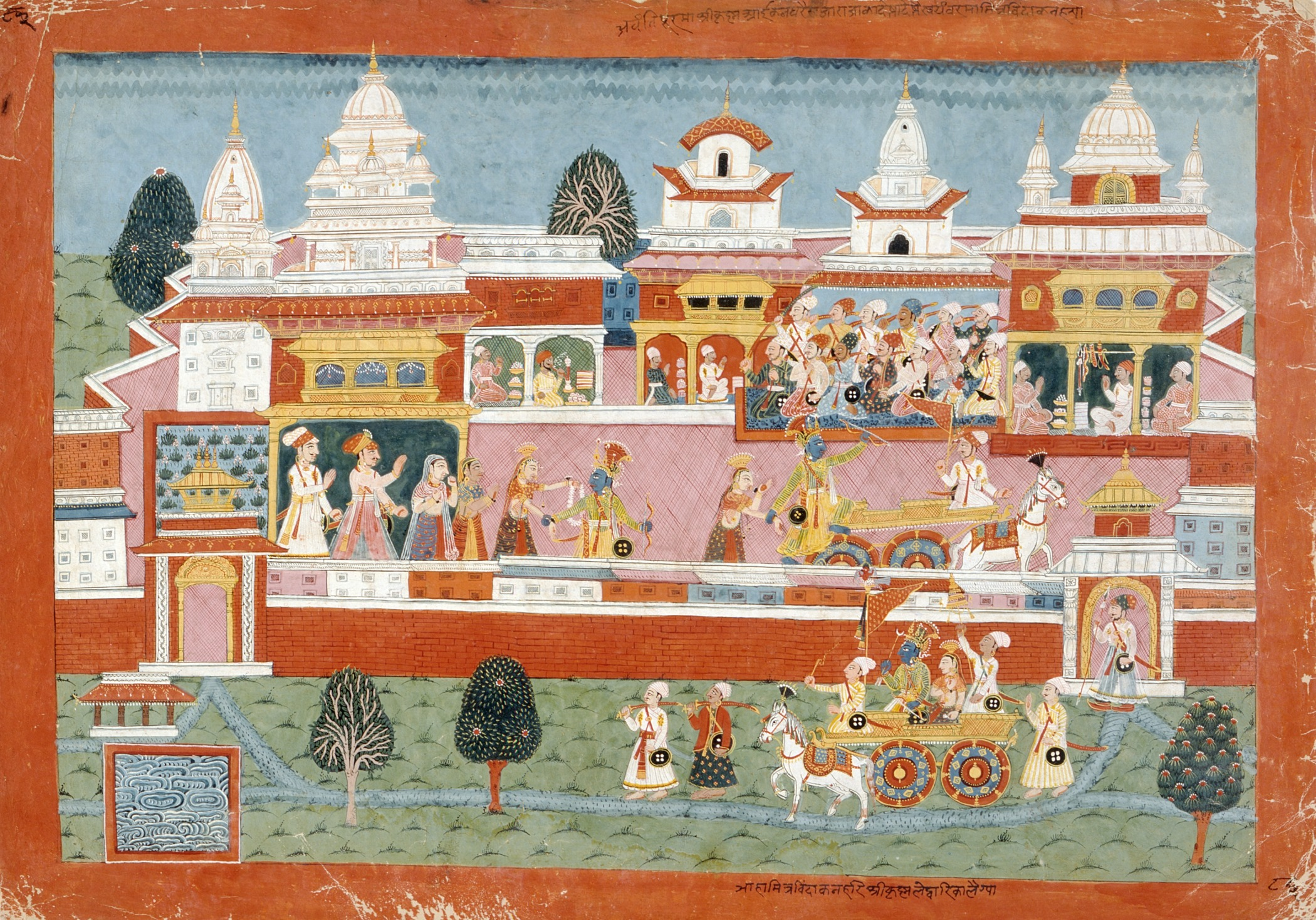 Nepal, 1775-1800 Drawings; watercolors Opaque watercolor and ink on paper Image: 12 5/8 x 18 3/8 in. (32.07 x 46.67 cm); Sheet: 14 1/2 x 20 3/8 in. (36.83 x 51.75 cm) Gift of Jane Greenough Green in memory of Edward Pelton Green (AC1999.127.2) South and Southeast Asian Art